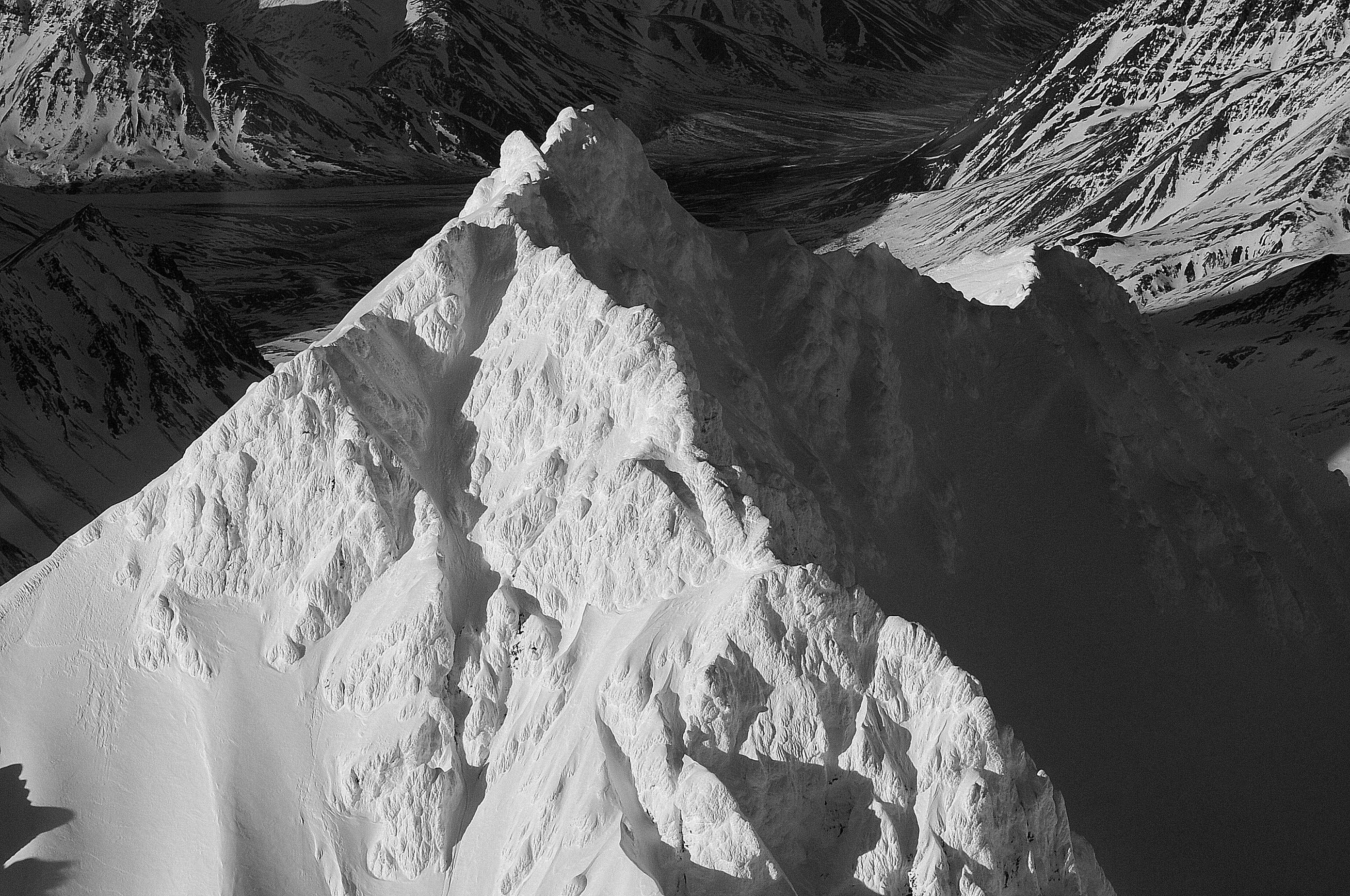 Aerial of Fang Mountain in winter covered with rime